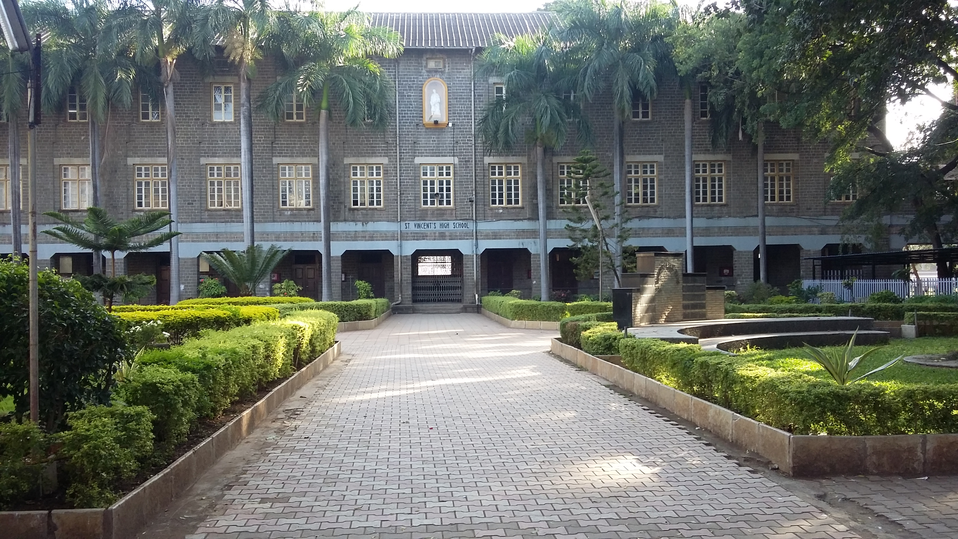 St Vincent's High School, Camp, Pune